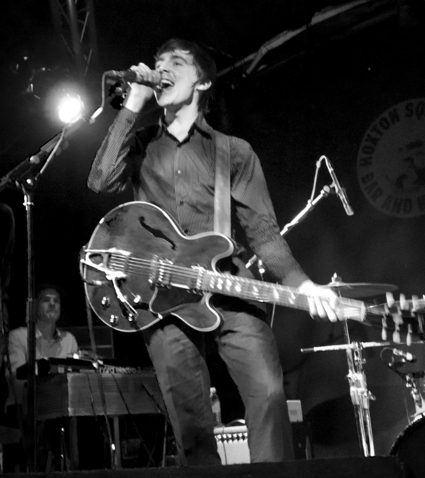 Miles Kanes at the Hoxton Square Bar & Kitchen